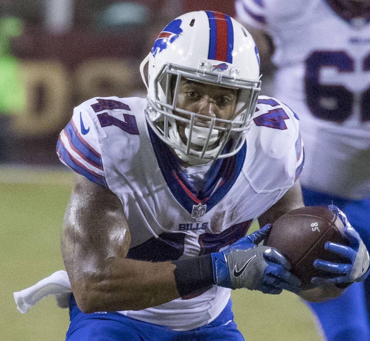 Buffalo Bills running back, Dan Herron, playing against the Washington Redskins on August 26, 2016